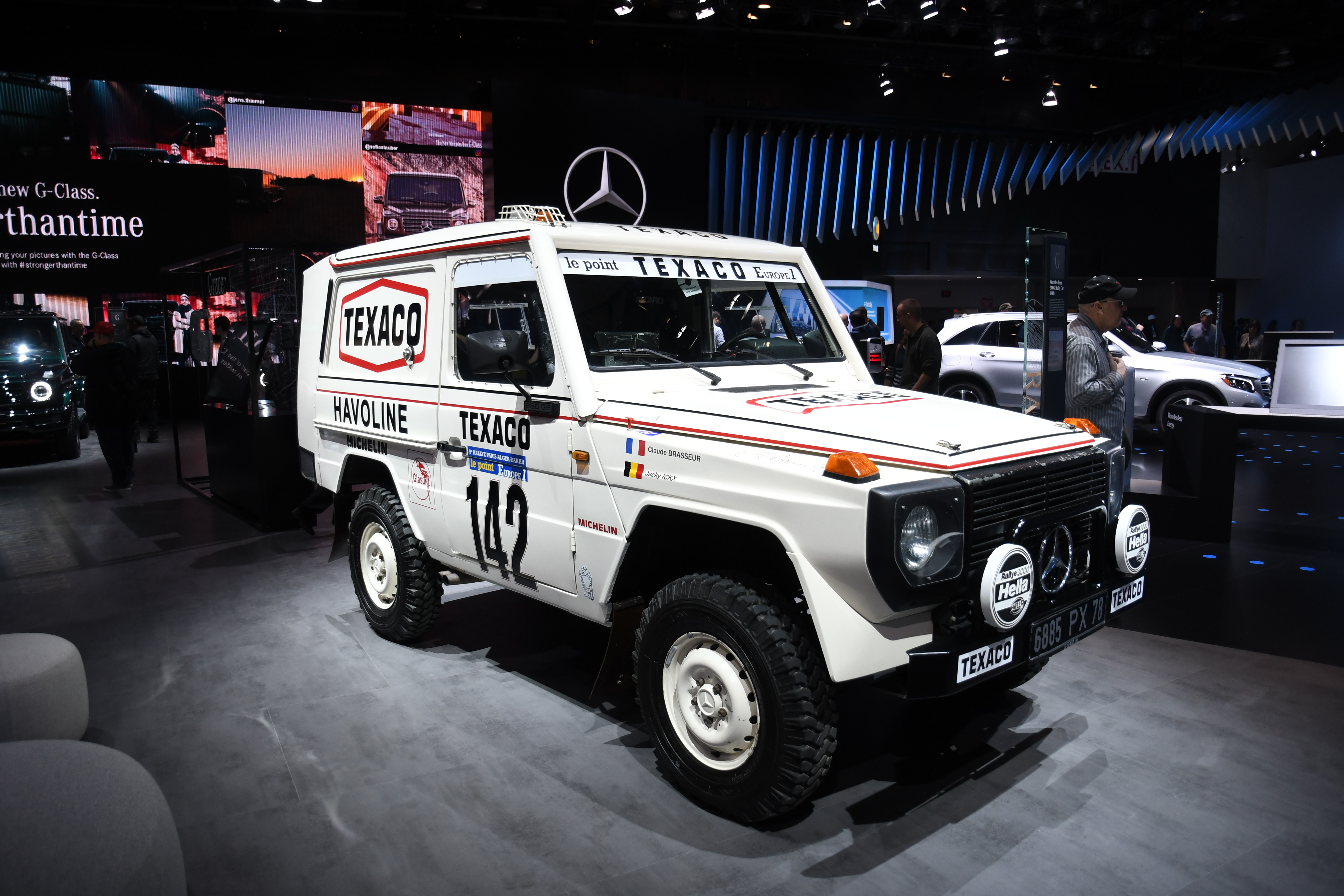 A scene from public display days of the 2018 North American International Auto Show held in Cobo Center in downtown Detroit, Michigan. January, 2018